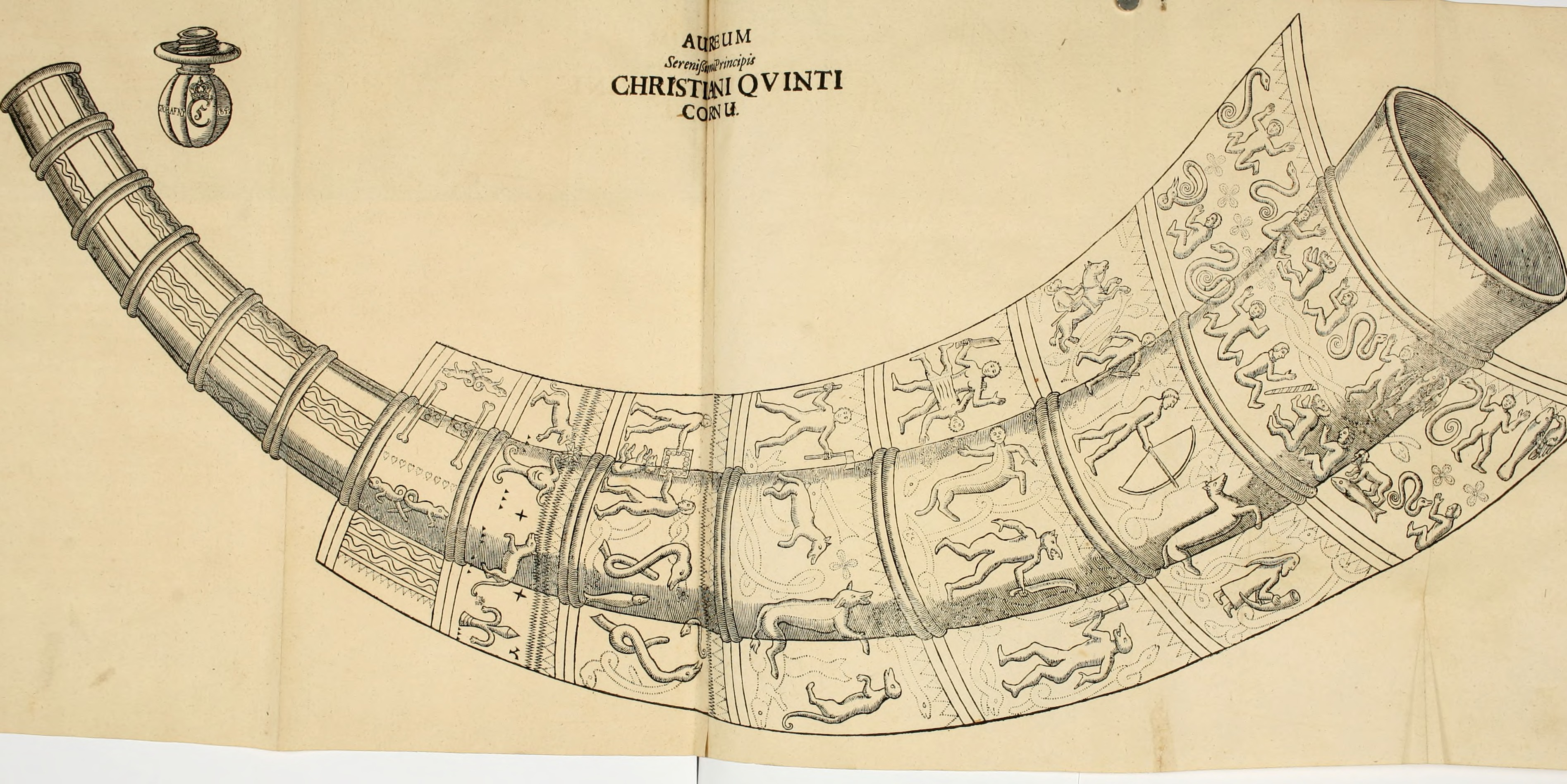 Title: Danicorum monumentorum libri sex : e spissis antiquitatum tenebris et in Dania ac Norvegia extantibus ruderibus Year: 1643 (1640s) Authors: Worm, Ole, 1588-1654 Pass, Simon van de, 1595?-1647 Subjects: Inscriptions, Runic Inscriptions, Runic Publisher: Hafniae : Apud Ioachimum Moltkenium ... Text Appearing Before Image: ' Text Appearing After Image: '